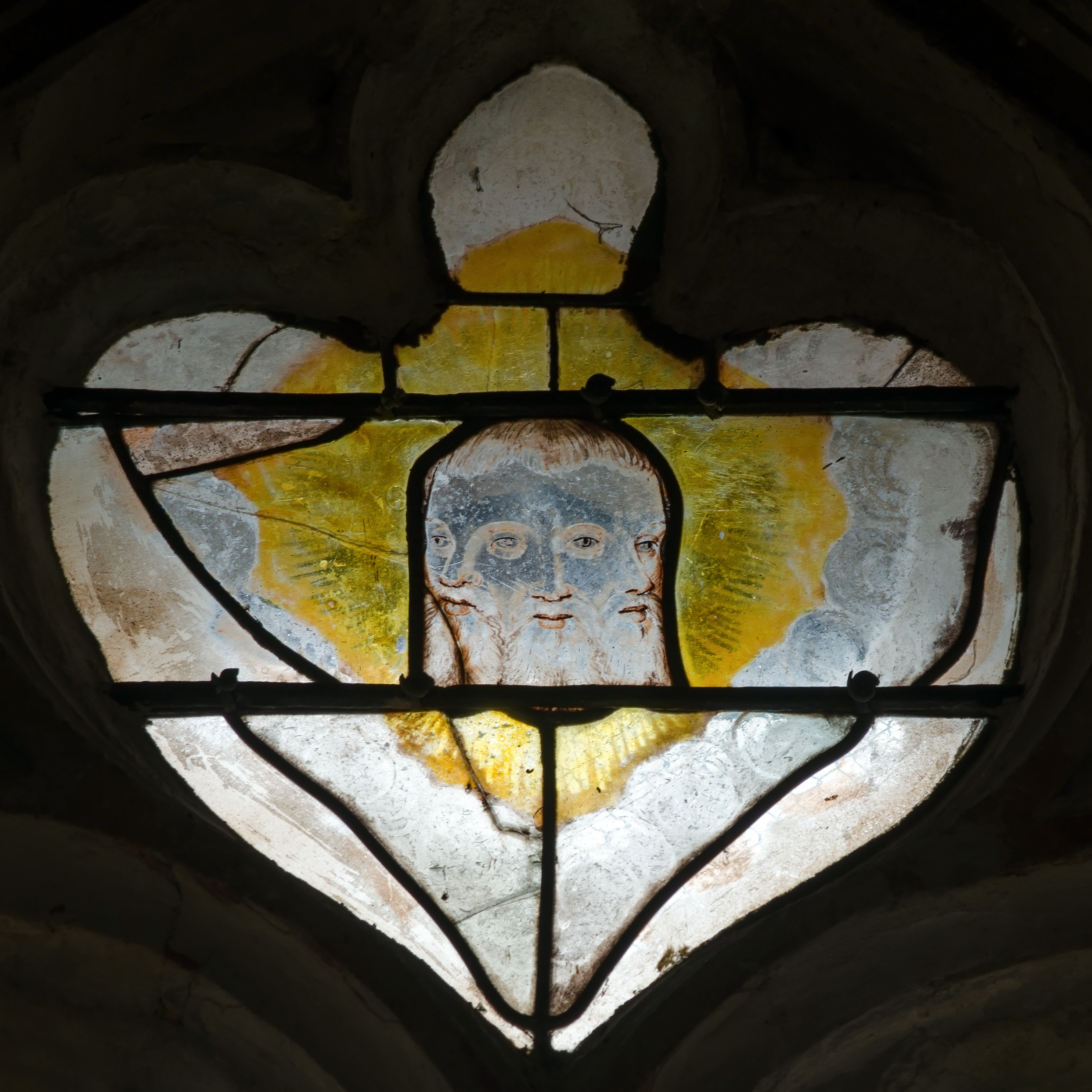 Rare depiction of the Trinity, detail of stained glass windows in Saint Martin church, Courgenard, Sarthe, France. .